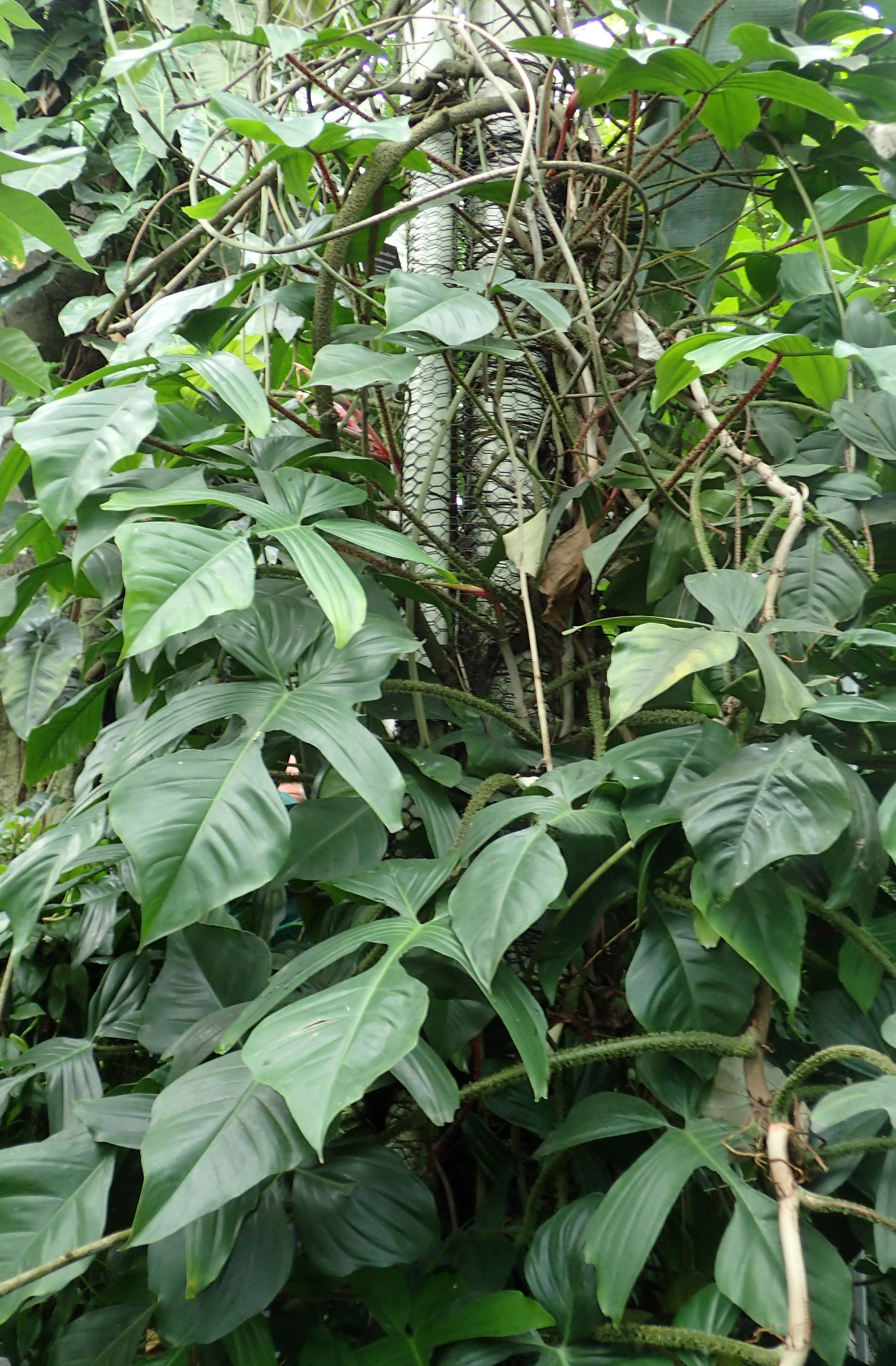 Philodendron squamiferum at the New York Botanical Garden